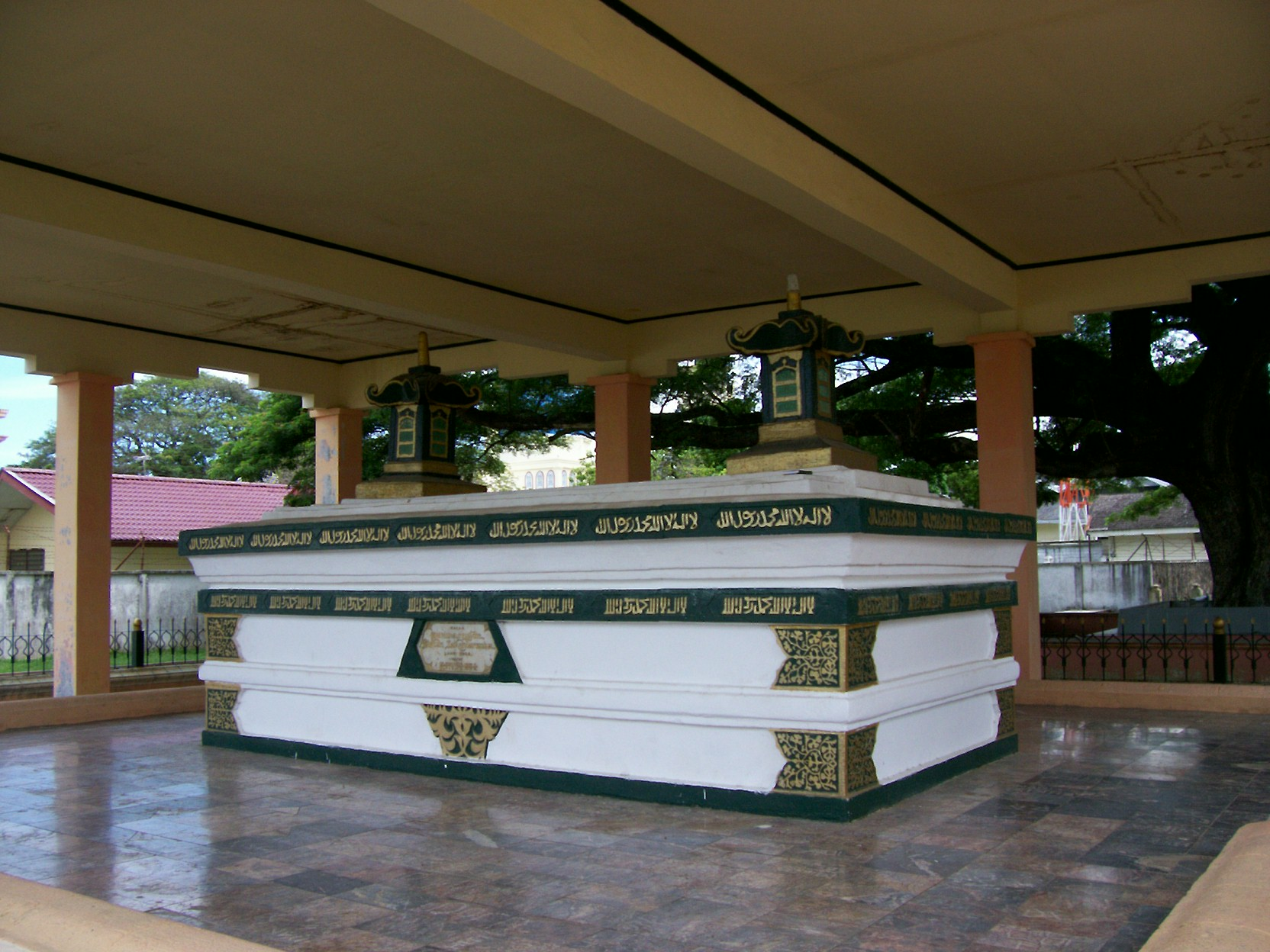 Sultan Iskandar Muda's grave